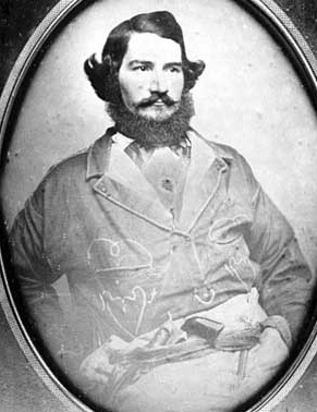 Harley Hopkins, Hopkins, Minnesota.